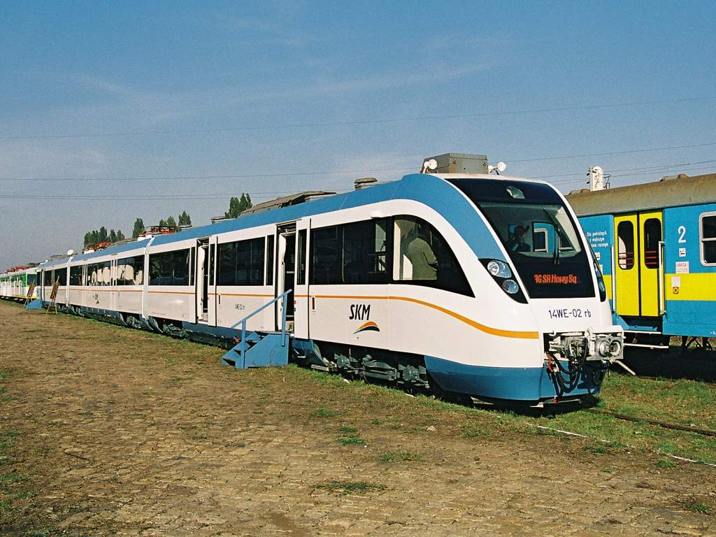 14WE-02 of SKM Warszawa; TRAKO trade fair, Gdańsk, Poland